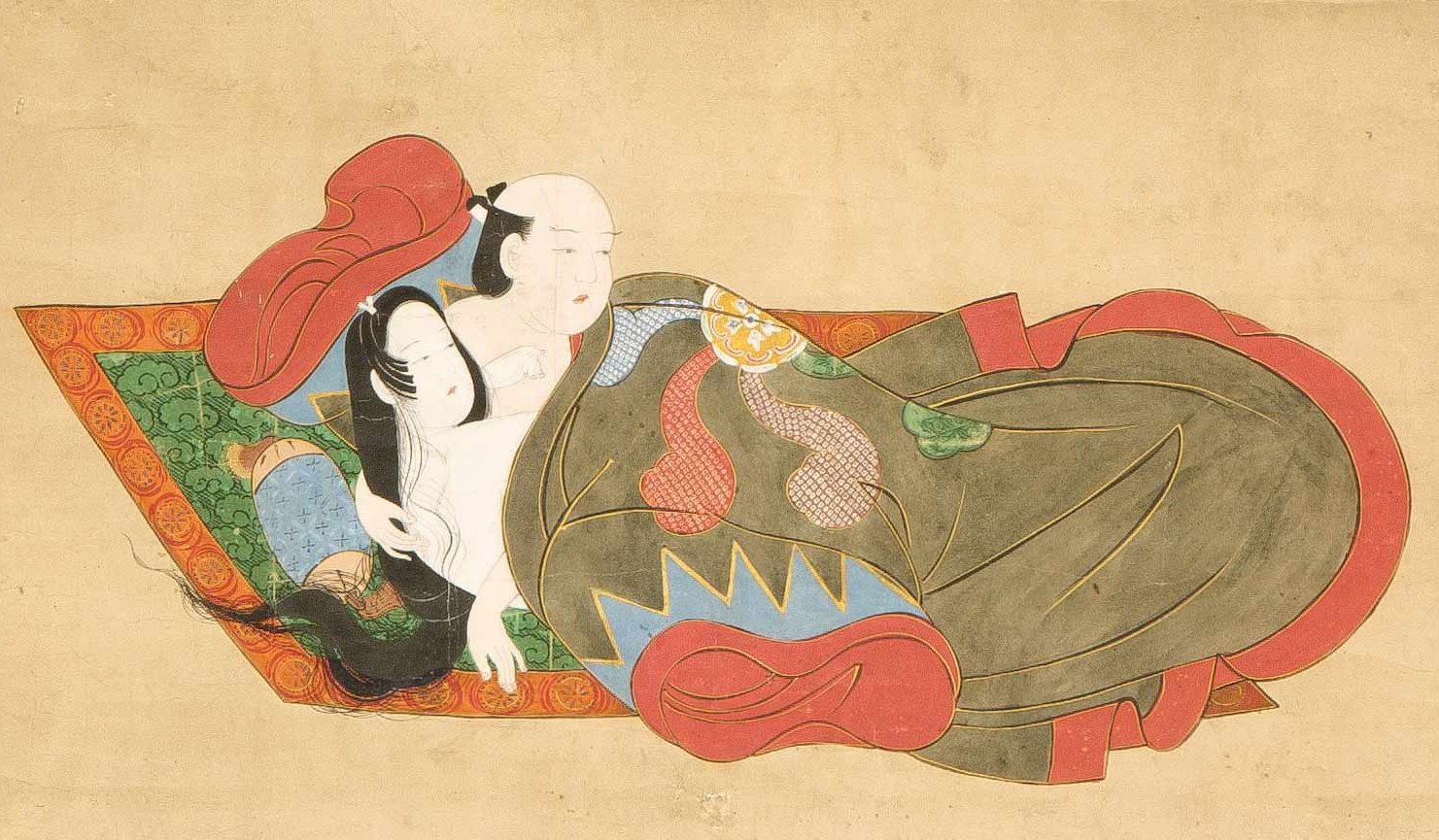 Caught in the Act, hanging scroll; ink and color on paper by the Kanbun Master, late 1660s, Honolulu Museum of Art, ex. Richard Lane Collection